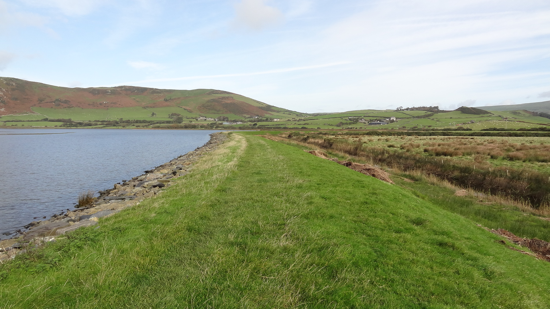 Land two metres below the Dysynni estuary